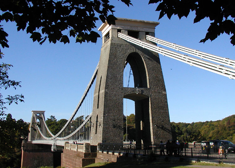 Clifton Suspension Bridge over the River Avon in Bristol, England. The bridge was designed by the great Victorian engineer Isambard Kingdom Brunel. Although not visible here, the Clifton Gorge below the bridge is about 240 feet deep (73 metres). Taken by Adrian Pingstone in October 2003 and released to the public domain.